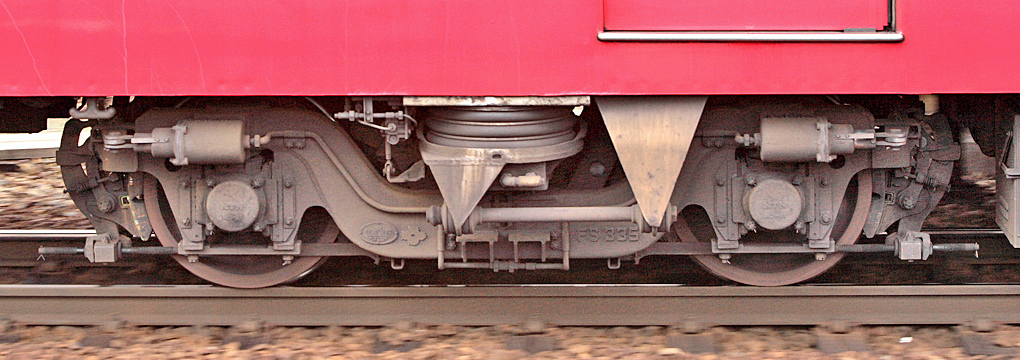 Sumitomo Metal Industries type FS-335 bogie truck of Meitetsu 7000 series ( Mo 7162 )